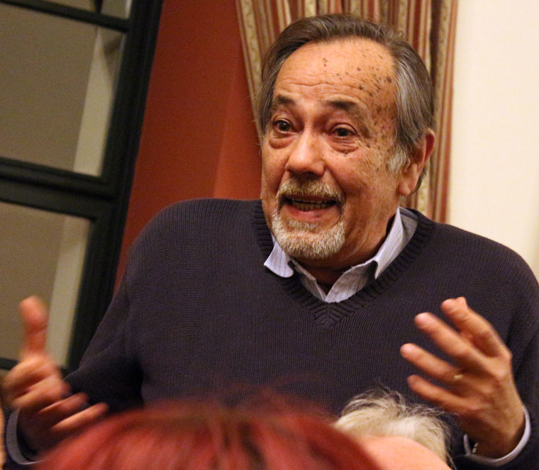 Péter Kertész a Hungarian a Hungarian Actor